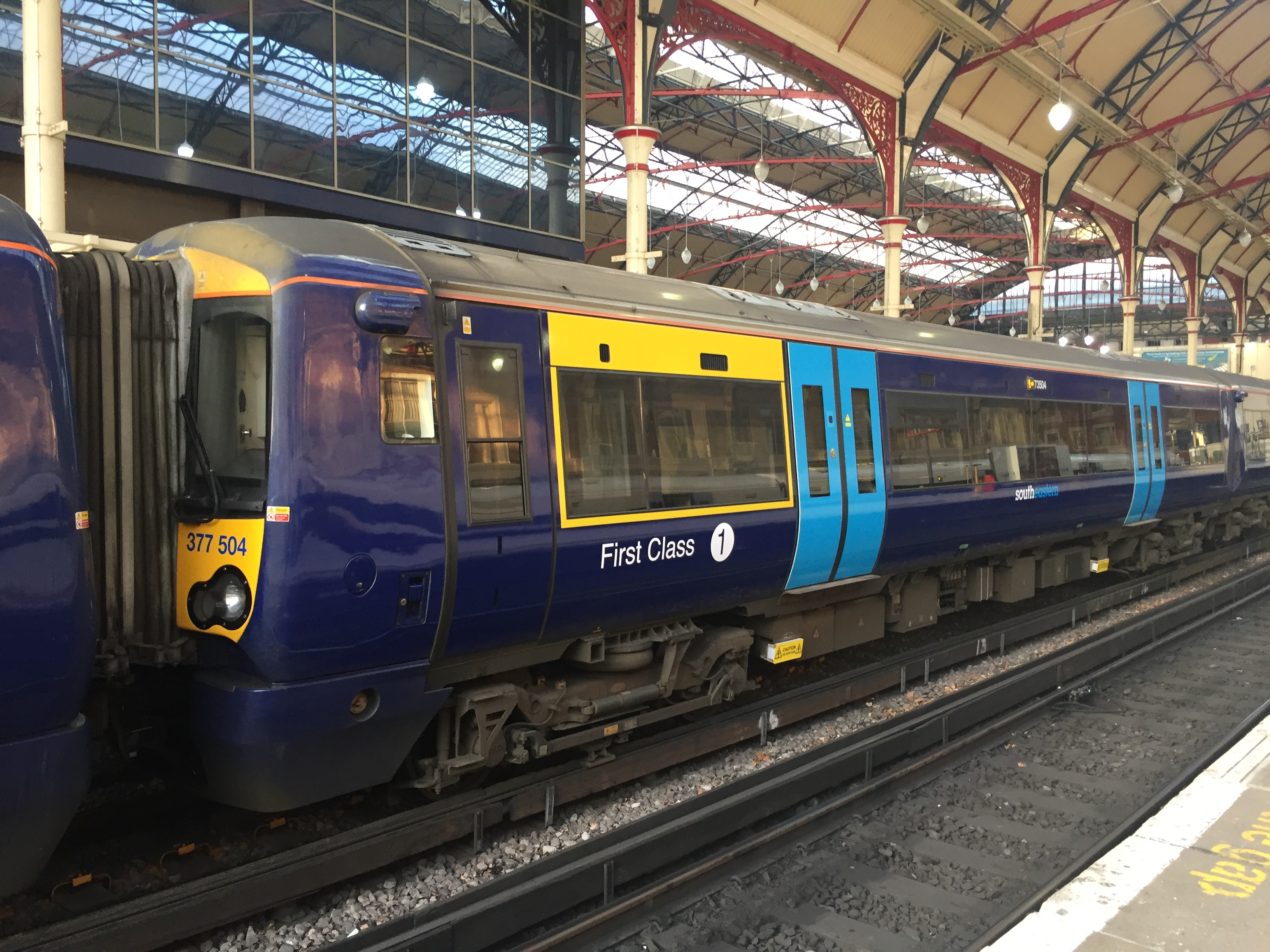 Photo of Southeastern 377504 in its recently applied Livery.